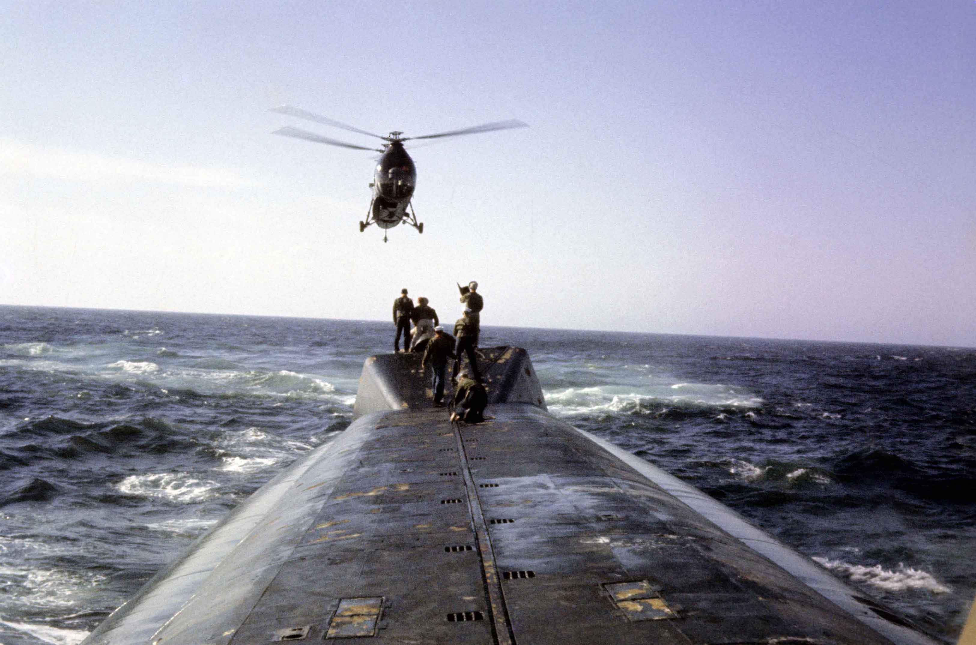 Helicopter picking up Captain Beach for transfer to the White House. Photo courtesy of the Triton's (SSRN-586) photographer, William Hadley via Garry Gray.